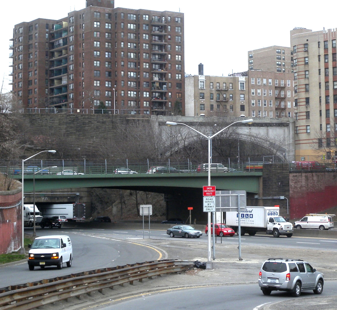 Looking east from Jerome Avenue as Grand Concourse (Bronx) passes over East 174th Street and parallels Walton Avenue. Below them, CBX crosses them all, on a cloudy midday.